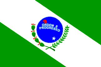 Paraná Flag, 1892-1905